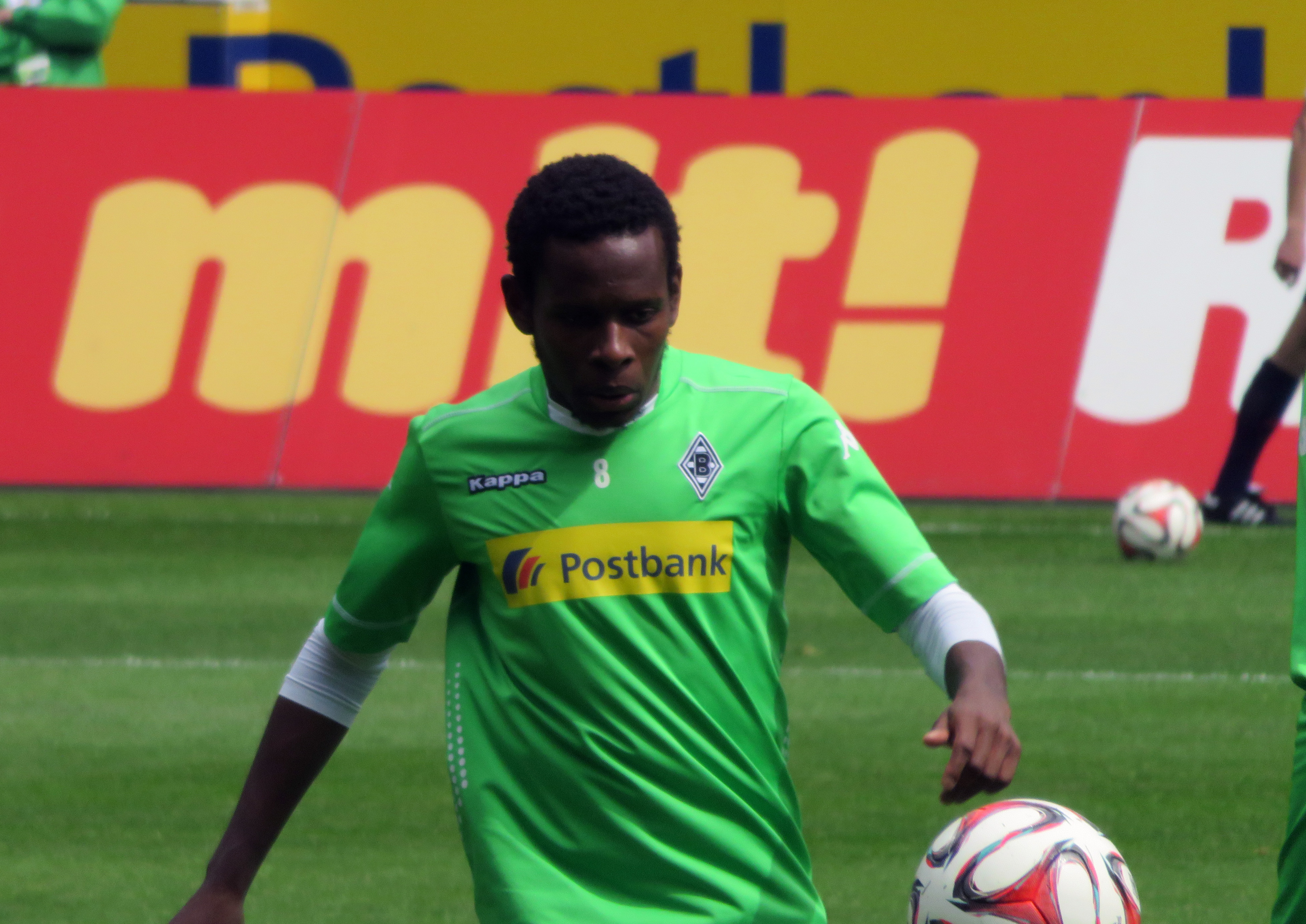 Ibrahima Traore